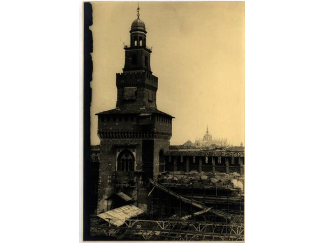 Sforza Catsle in 1902 during a restoration